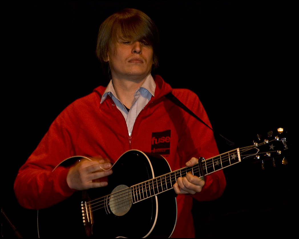 Was lucky enough to go to the taping of a Death Cab for Cutie for Sound Opinions (thanks to Chicago Sage !) A fun show!